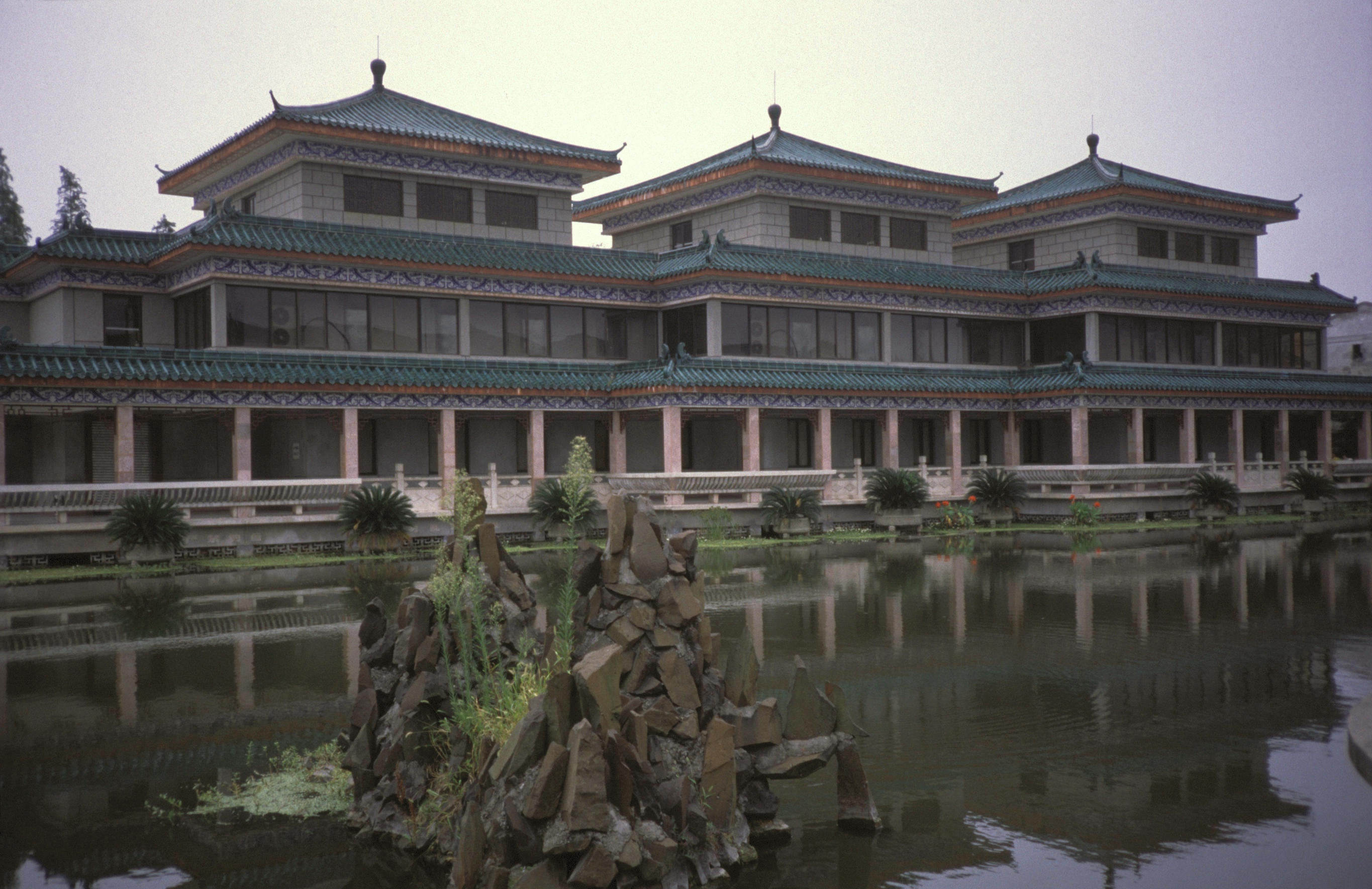 Museum in Jingzhou in Hubei Province, China